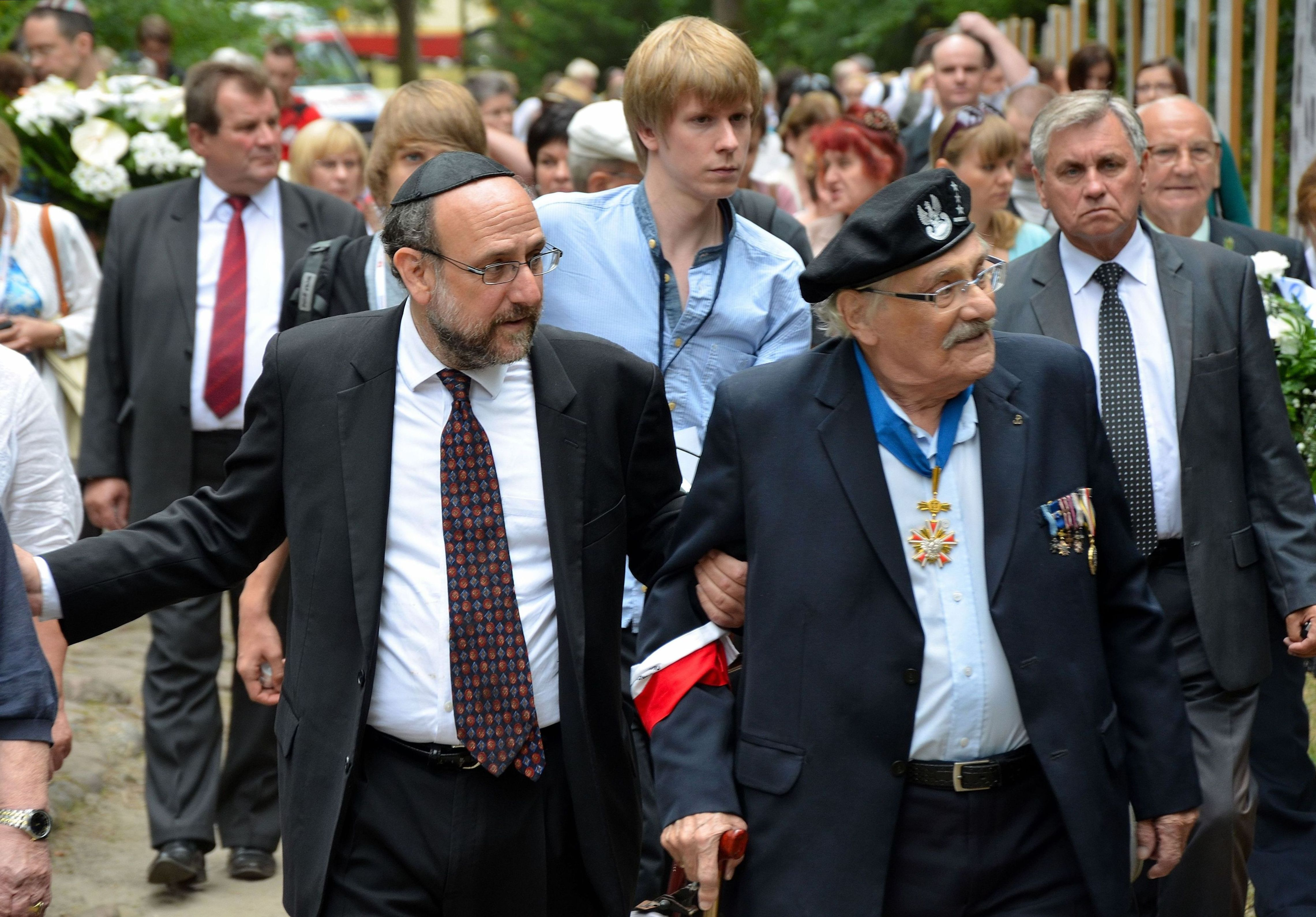 Chief Rabbi of Poland Michael Schudrich and Samuel Willenberg on the way to commemorative ceremony to mark 70th anniversary of the revolt in Treblinka death camp at Treblinka